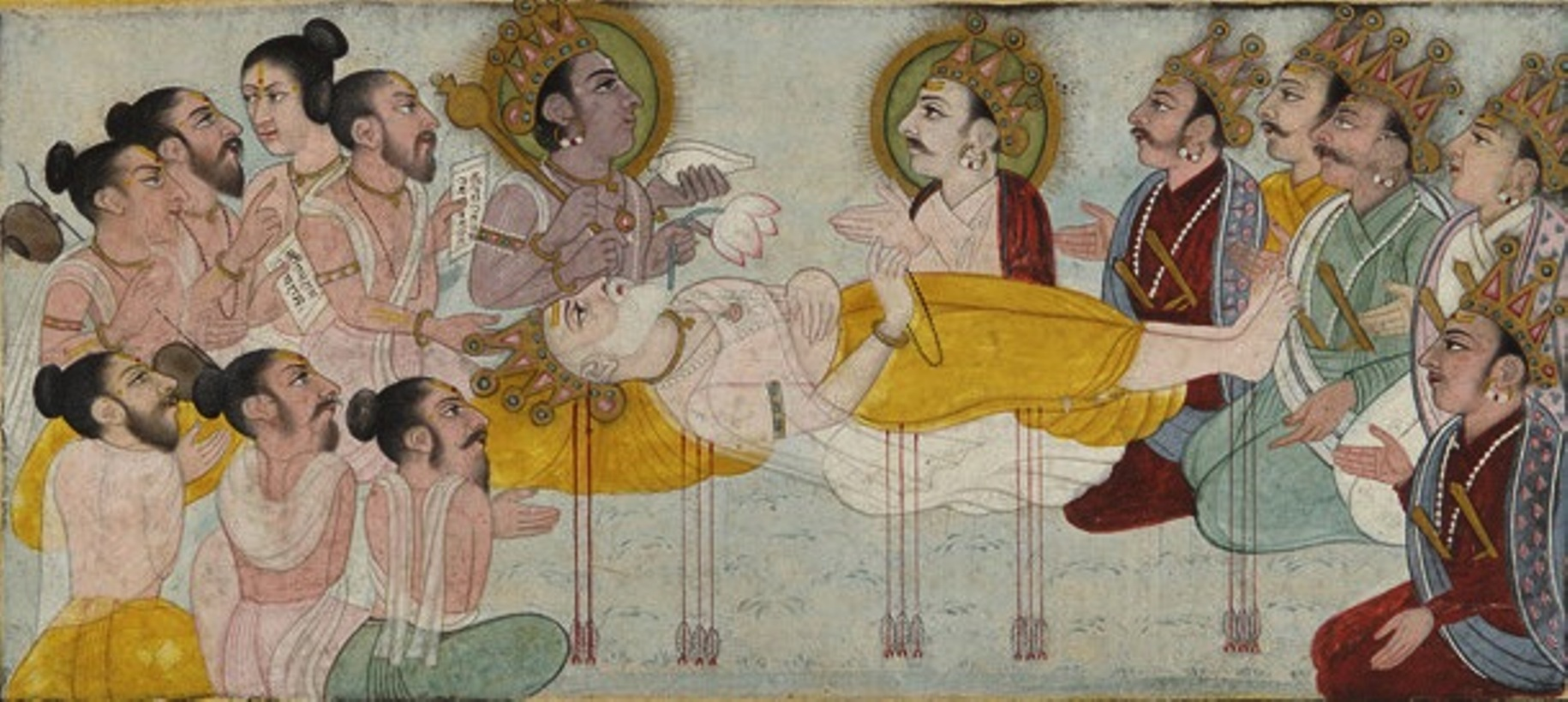 Bhishma, a character from the Mahabharata, on his deathbed of arrows.